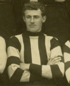 Photograph of Reg Gibb in 1913